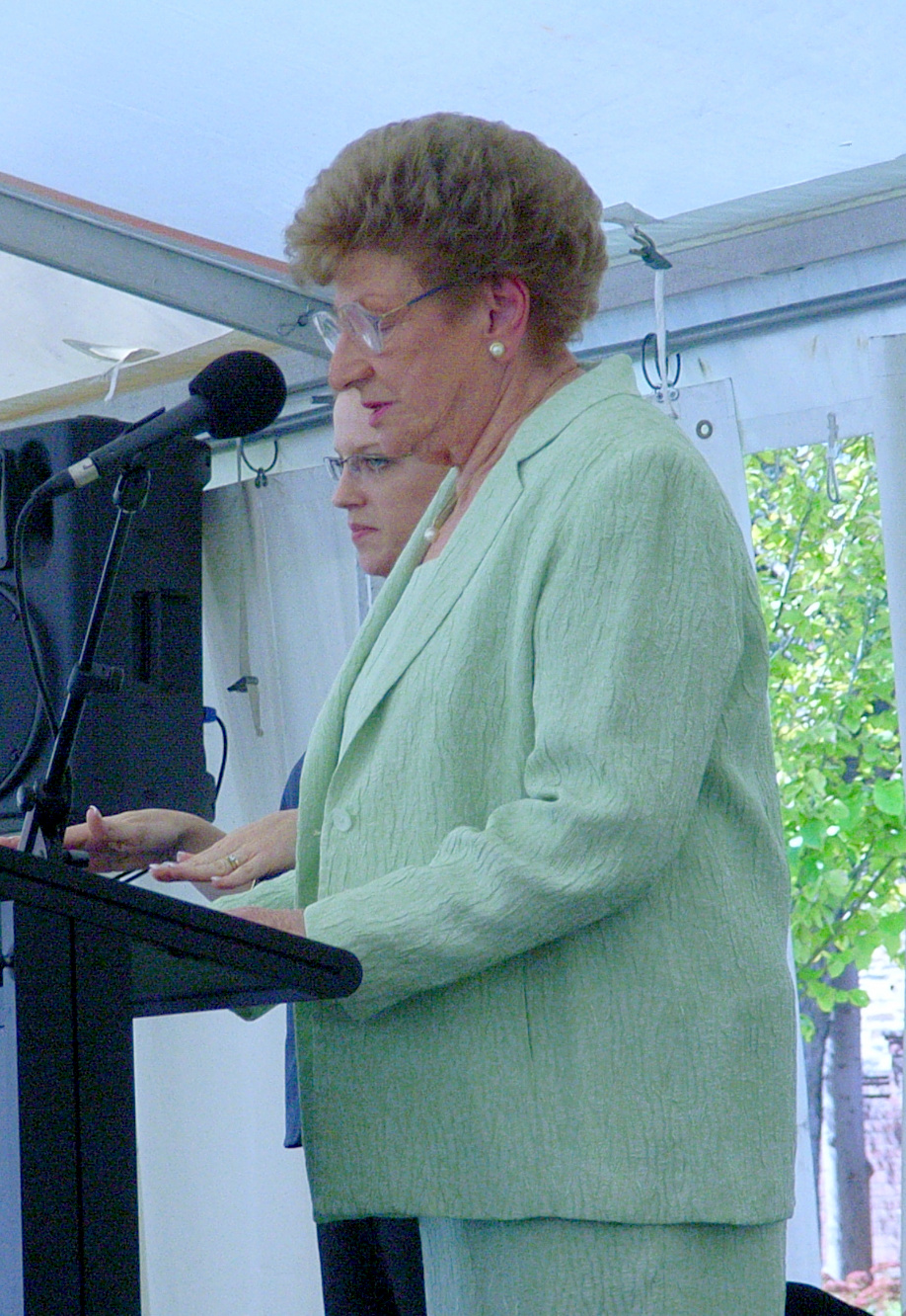 Her Excellency Marjorie Jackson-Nelson AC CVO MBE Once known as the Lithgow Flash